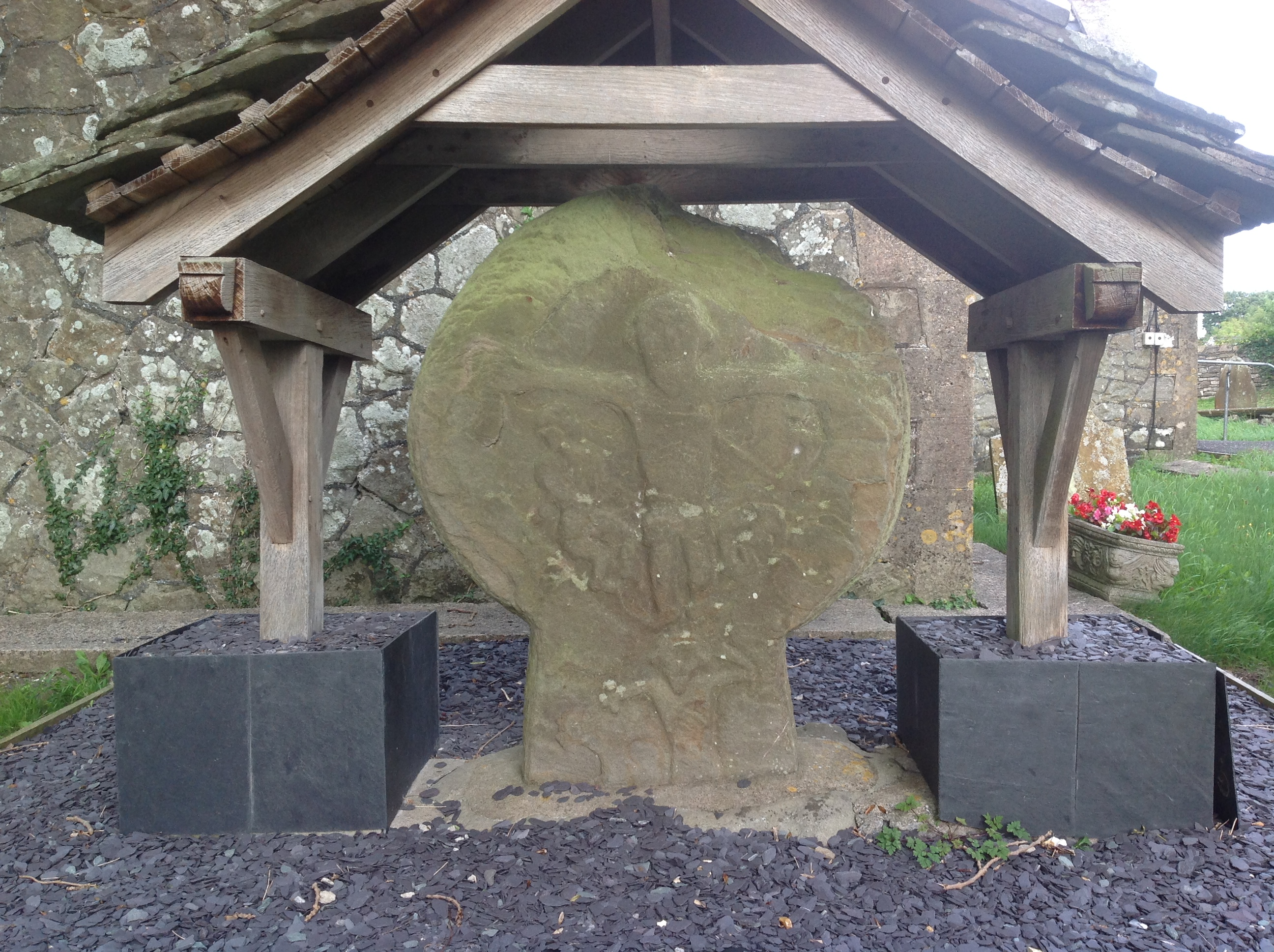 Located near the west wall of St Canna's Church in Llangan a disc-headed cross slab, 1.3m high, depicting the Crucifiction, 9th-10th c.; set in a stone within an open shelter.